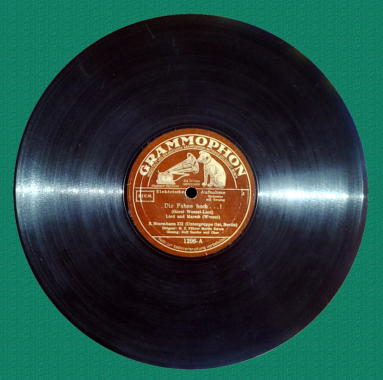 Shellac Die Fahne hoch! (Horst-Wessel-Lied)